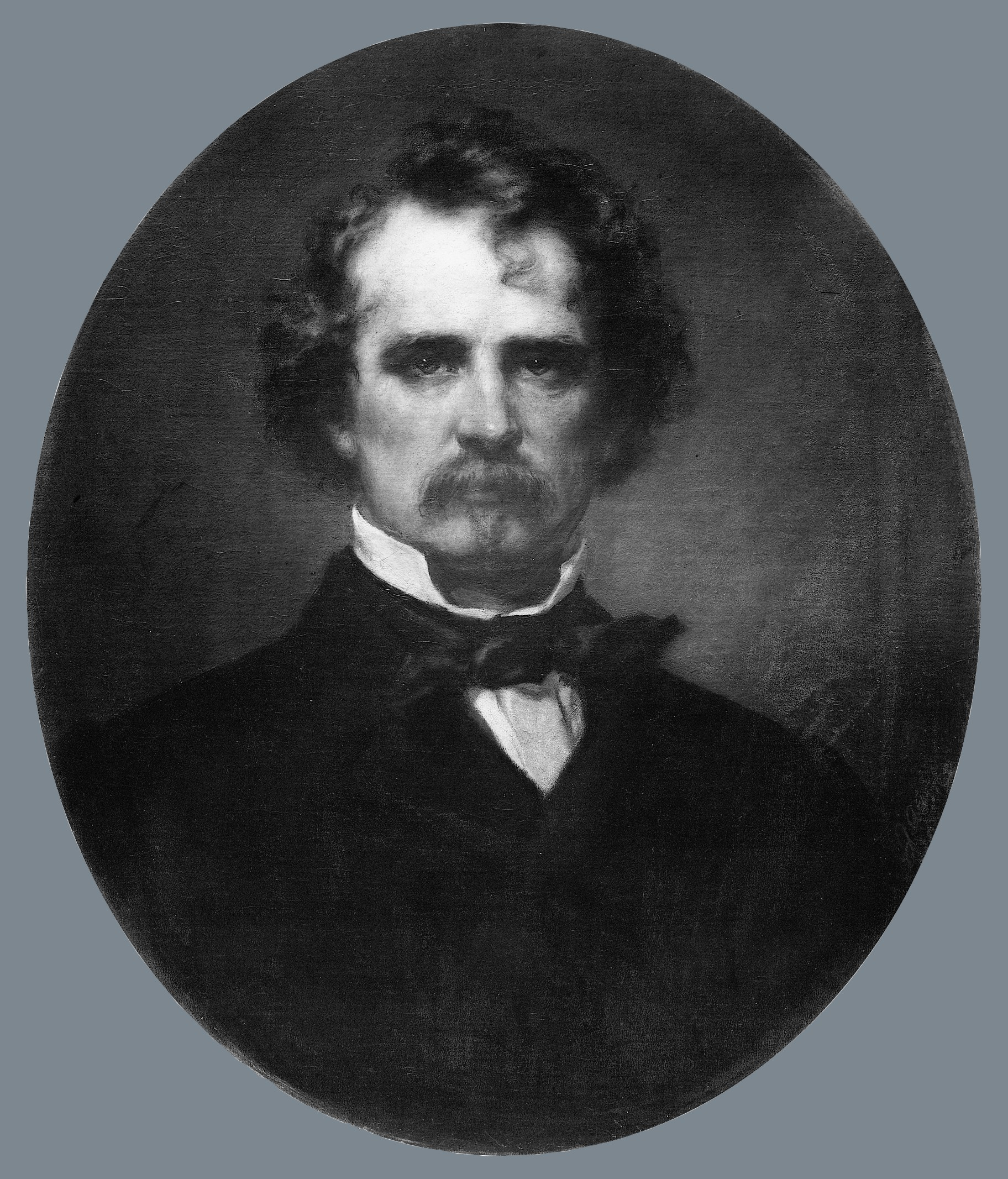 James Topham Brady Artist: Joseph Alexander Ames (1816–1872) Date: 1869 Medium: Oil on canvas Dimensions: 30 x 25 in. (76.2 x 63.5 cm) Classification: Paintings Credit Line: Gift of Francis Lynde Stetson, 1910